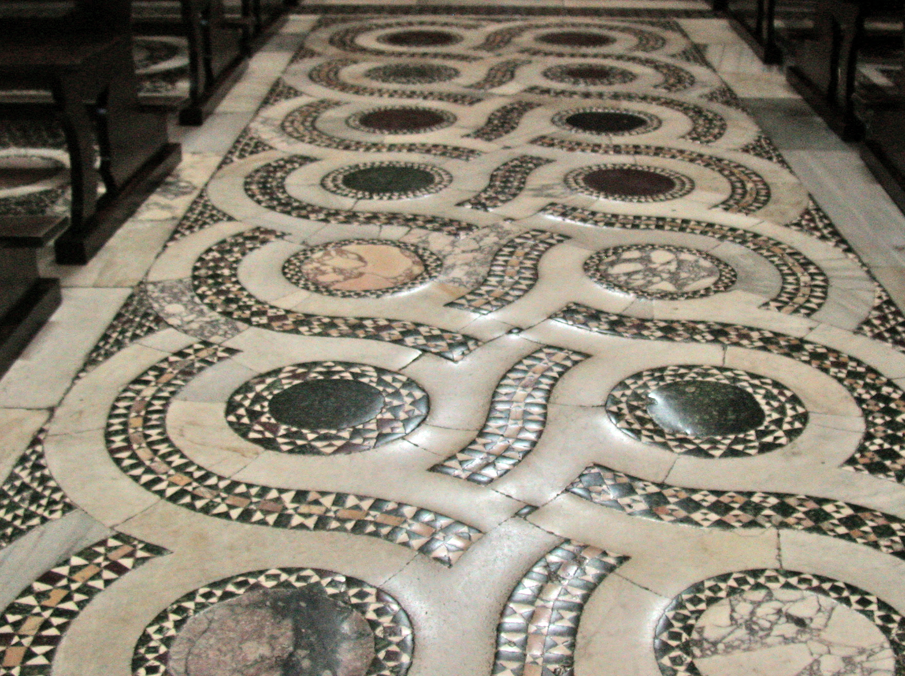 Cosmatesque pavement, central nave of the Duomo di San Cesareo in Terracina (Latium, Italy).